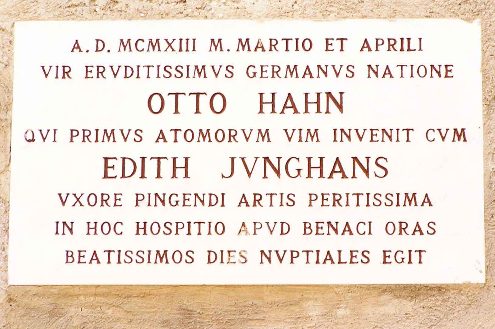 Marbleplaque at the Locanda San Vigilio, which refers to the honeymoon of Otto Hahn and his wife Edith Junghans in March and April 1913